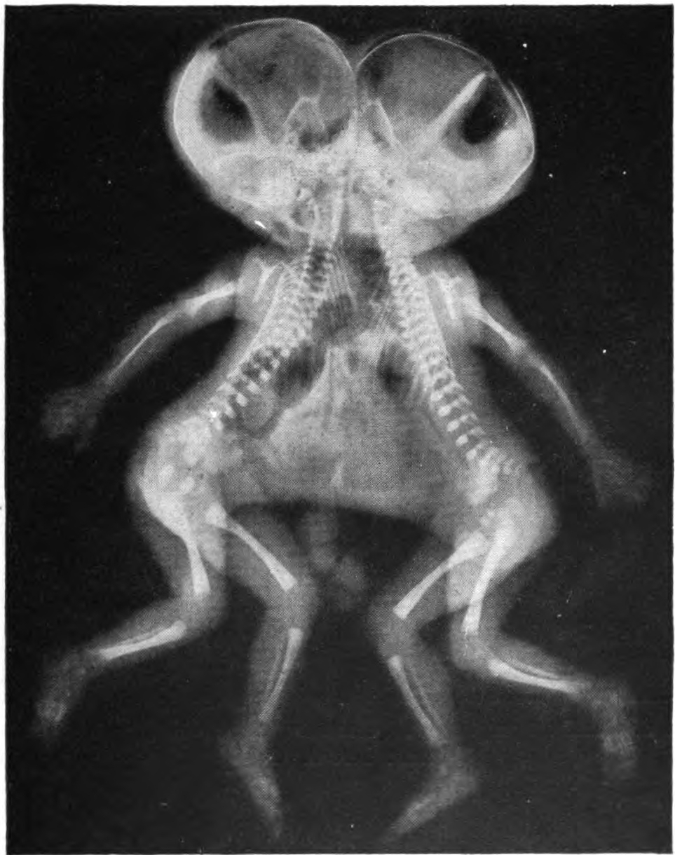 Fig. 87. X-ray of joined twins, cephalothoracopagus. (Courtesy Herman Klapproth, M.D., and Eastman Kodak Co.)